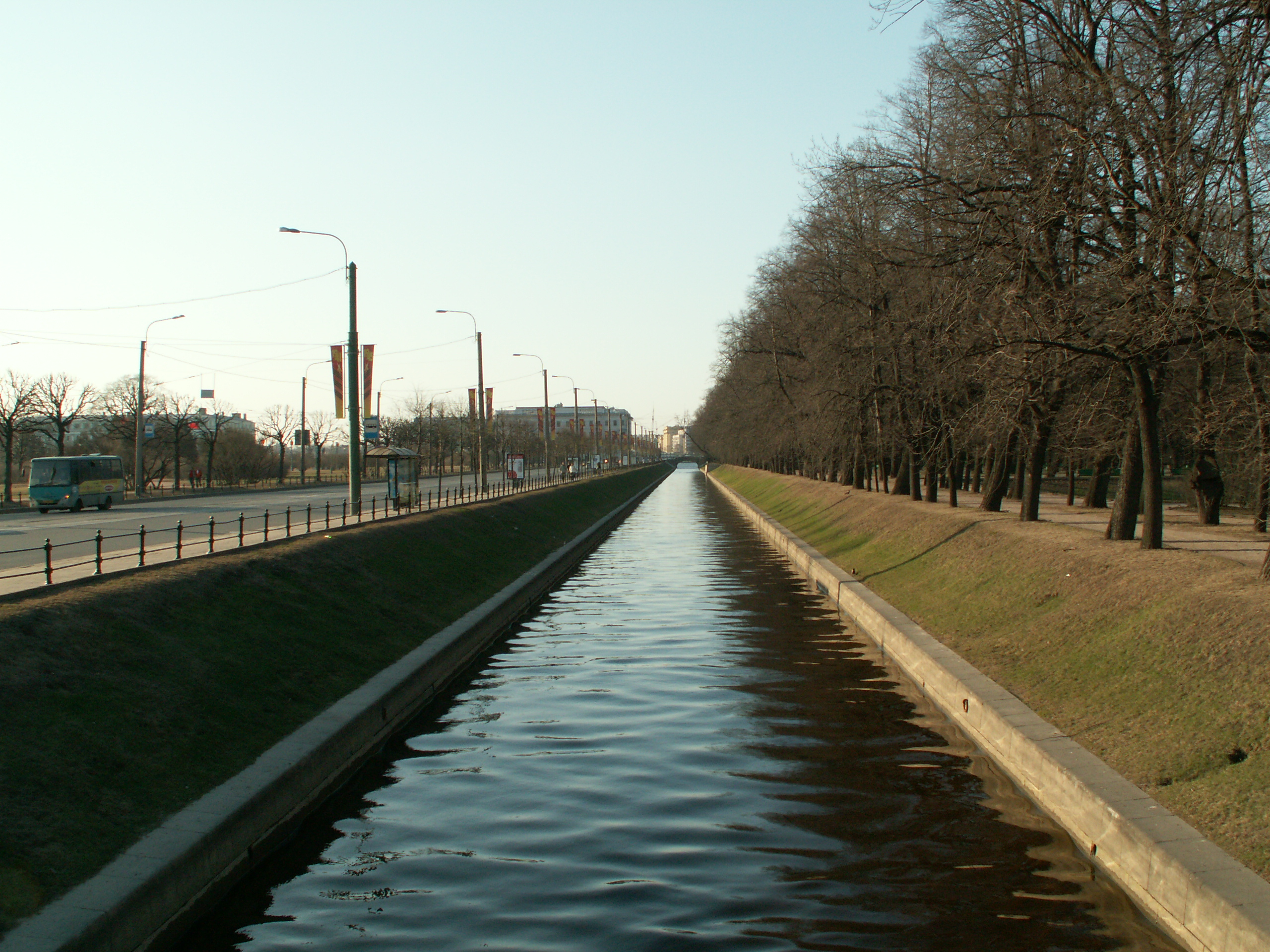 The Lebyazhya kanavka (Swan canal) in Saint Petersburg. The Summer Garden at right bank.